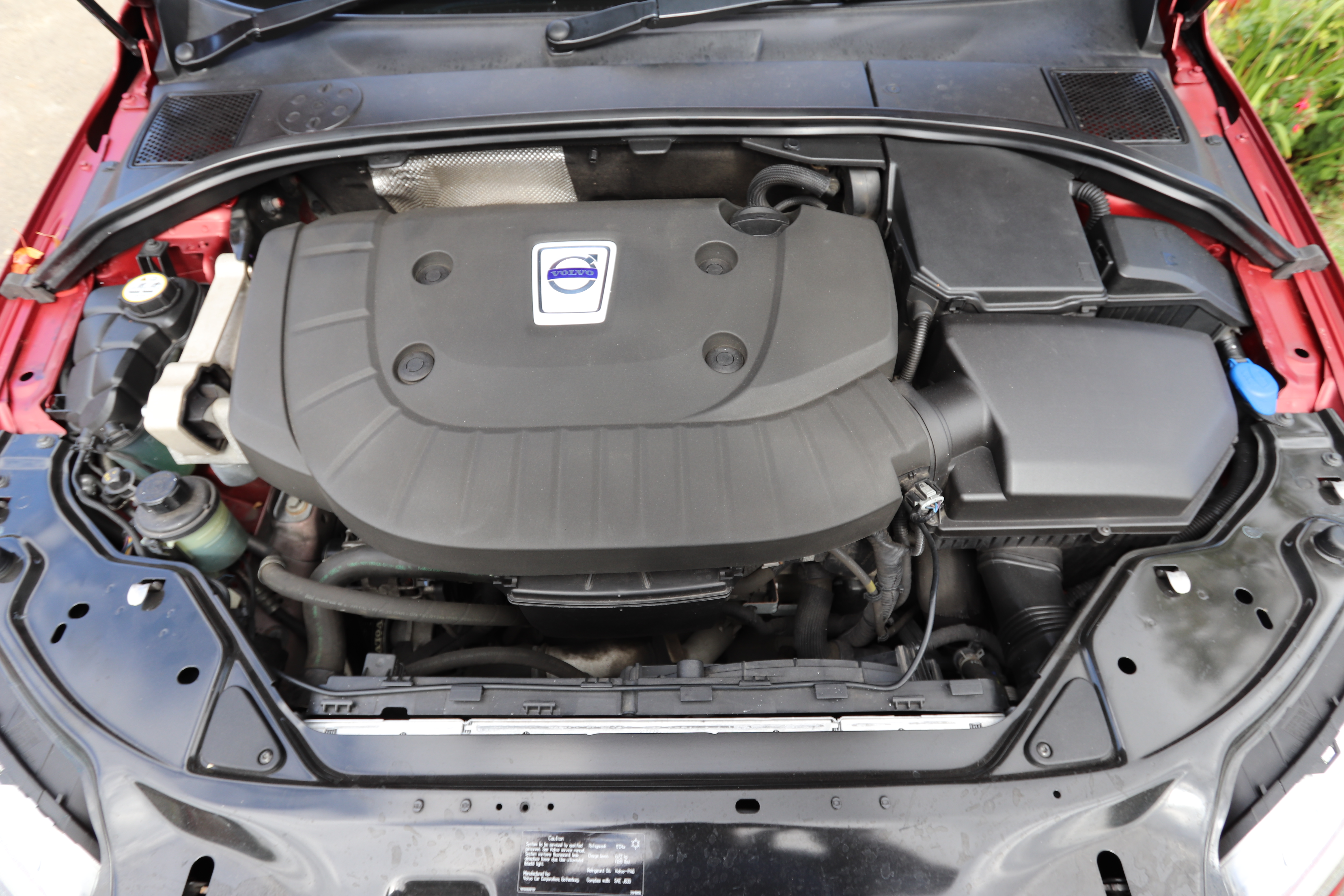 Volvo 5-cylinder diesel engine bay (MY15 Volvo XC70)